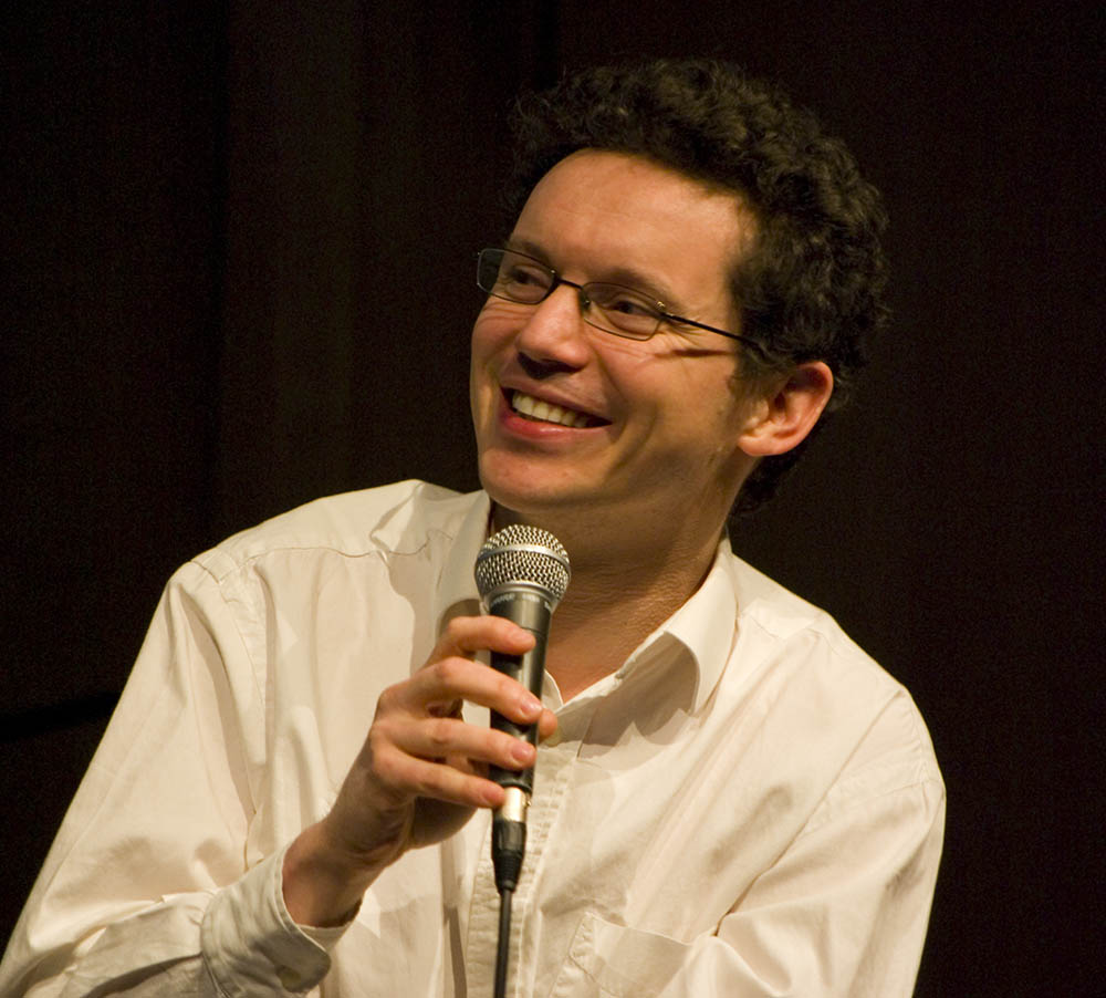 Wendelin_Werner at ENS of Lyon